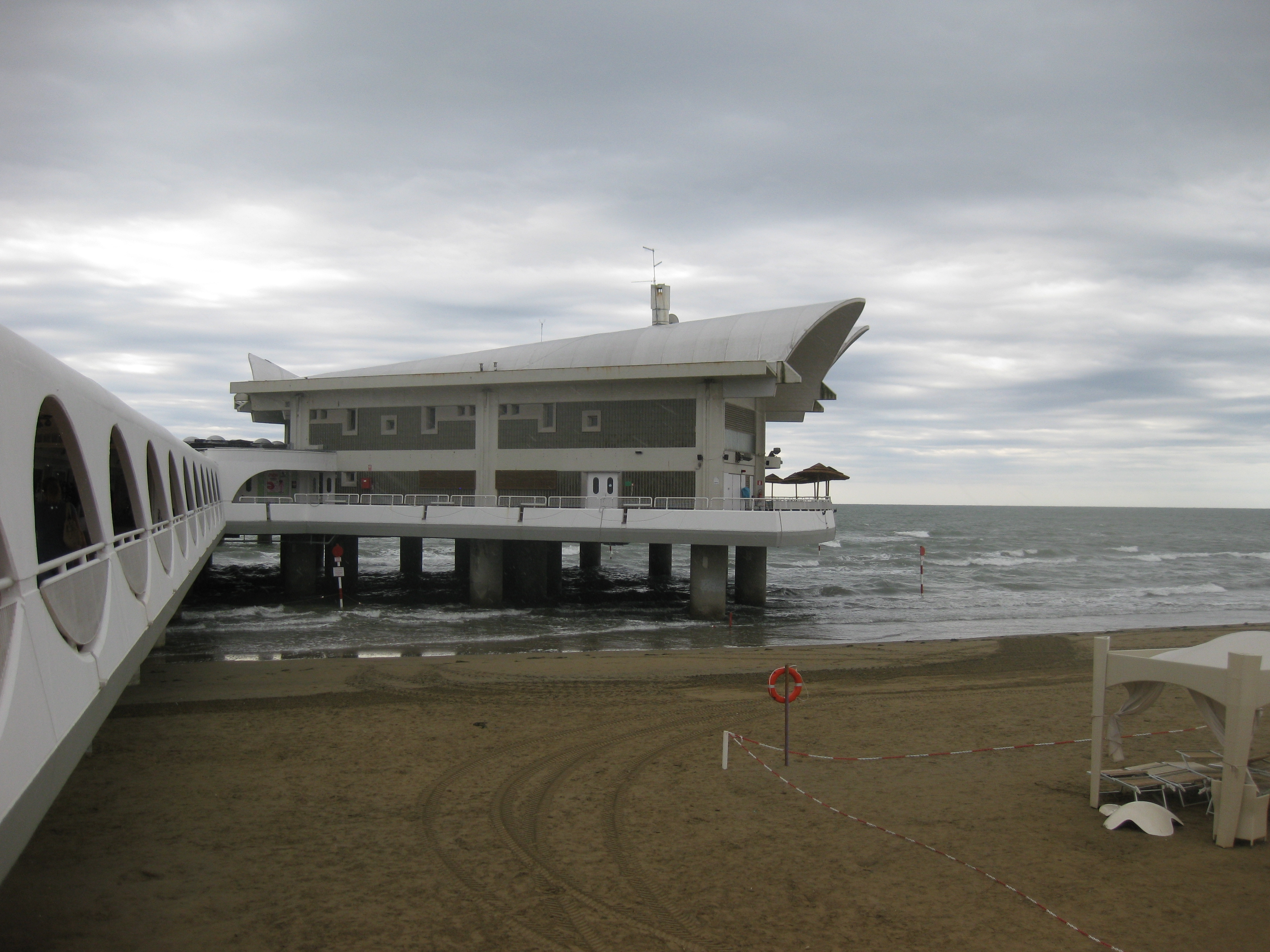 Terrazza Mare (LIGNANO SABBIADORO)